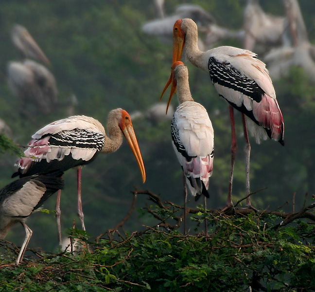 Painted Stork Mycteria leucocephala in Uppalapadu, Andhra Pradesh, India.